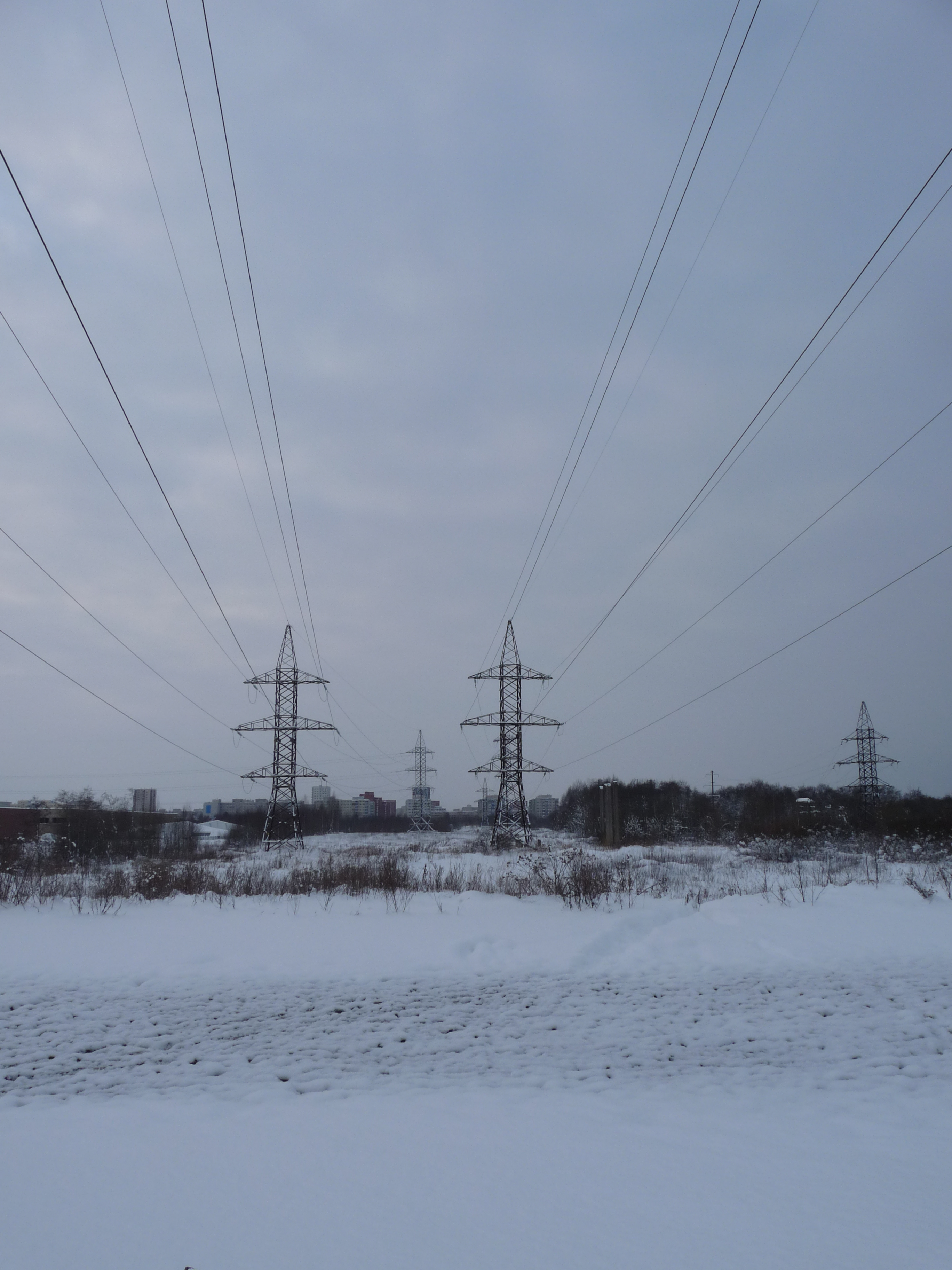 Power lines in Tallinn